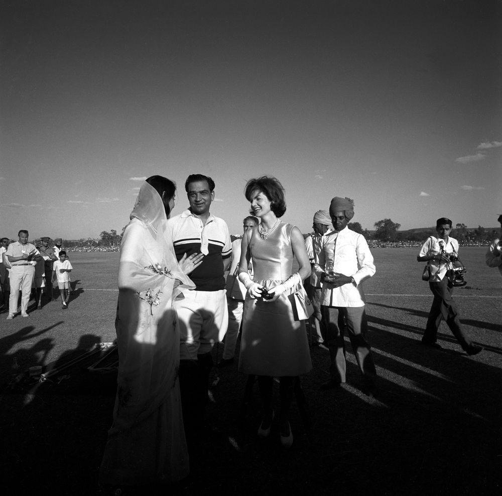 First Lady Jacqueline Kennedy (center) visits with the Maharaja of Jaipur, Sawai Man Singh II, and his wife the Maharani of Jaipur and Member of Indian Parliament, Gayatri Devi, following a polo match in Jaipur, Rajasthan, India.